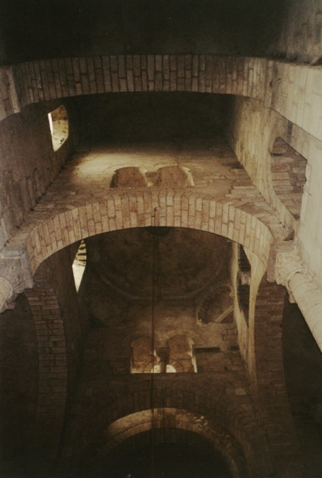 Interior of the romanesque church in Saint-Saturnin, Auvergne, France.